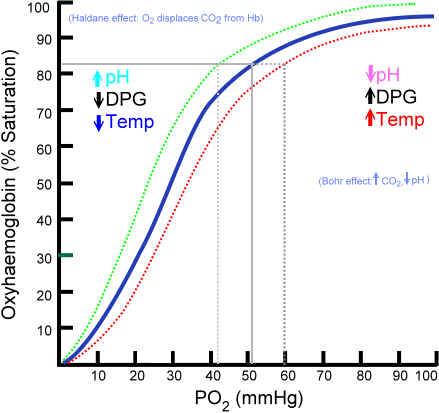 A basic oxyhaemoglobin (oxyhemoglobin) dissociation curve.